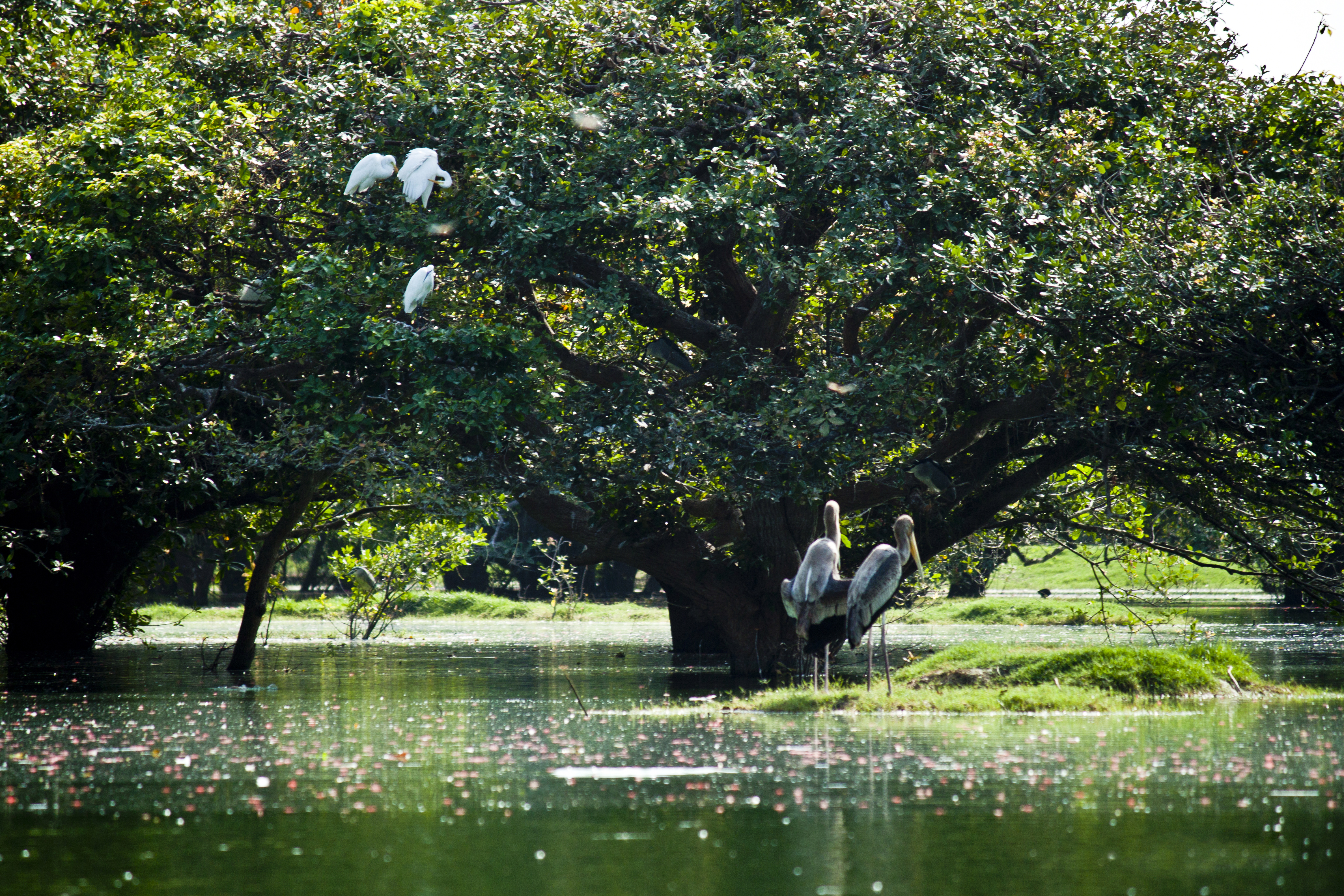 In a Land of their own---Vedanthangal